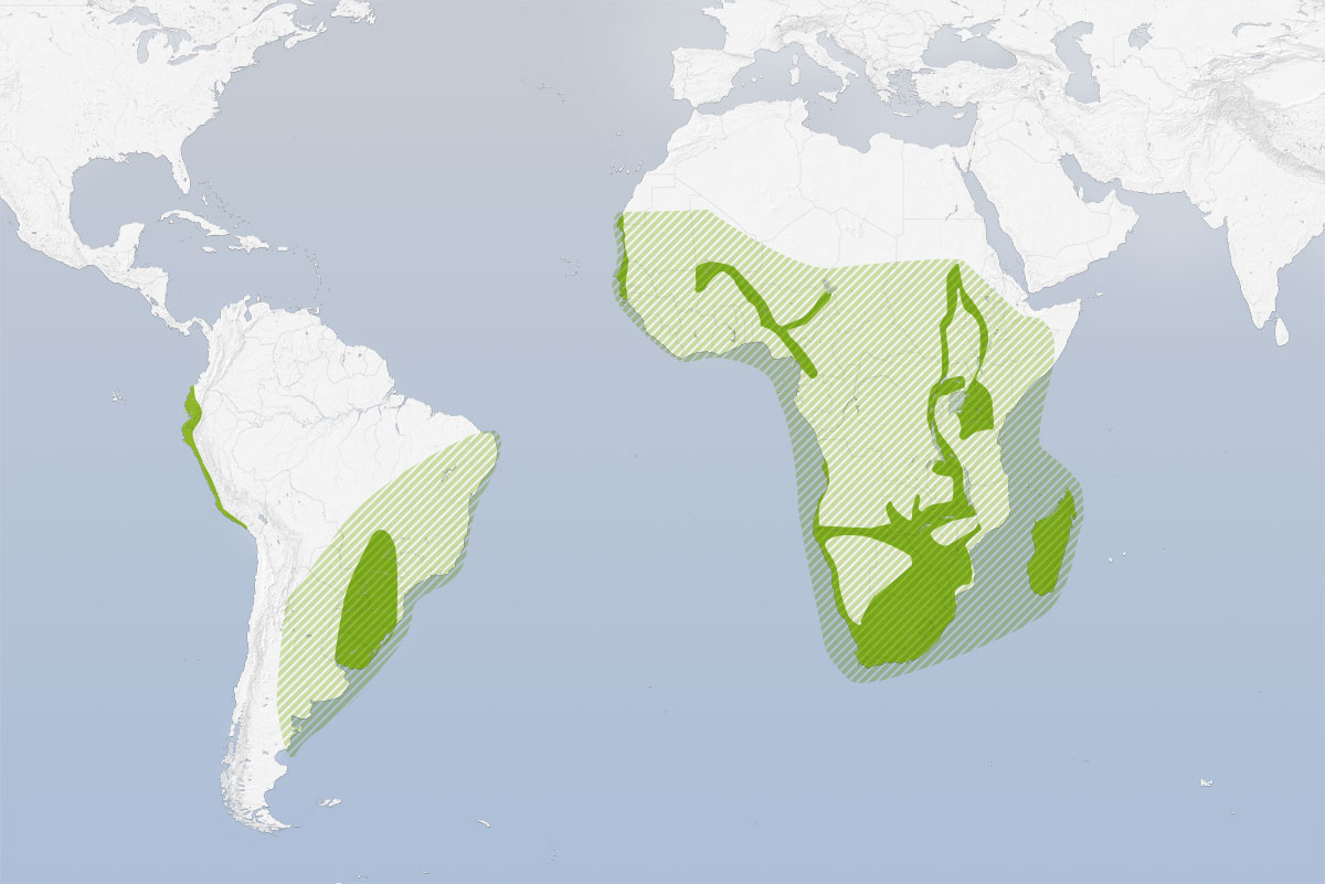 Breeding (full tone) and non-breeding (shaded) distribution of the Grey-headed Gull (Chroicocephalus cirrocephalus)